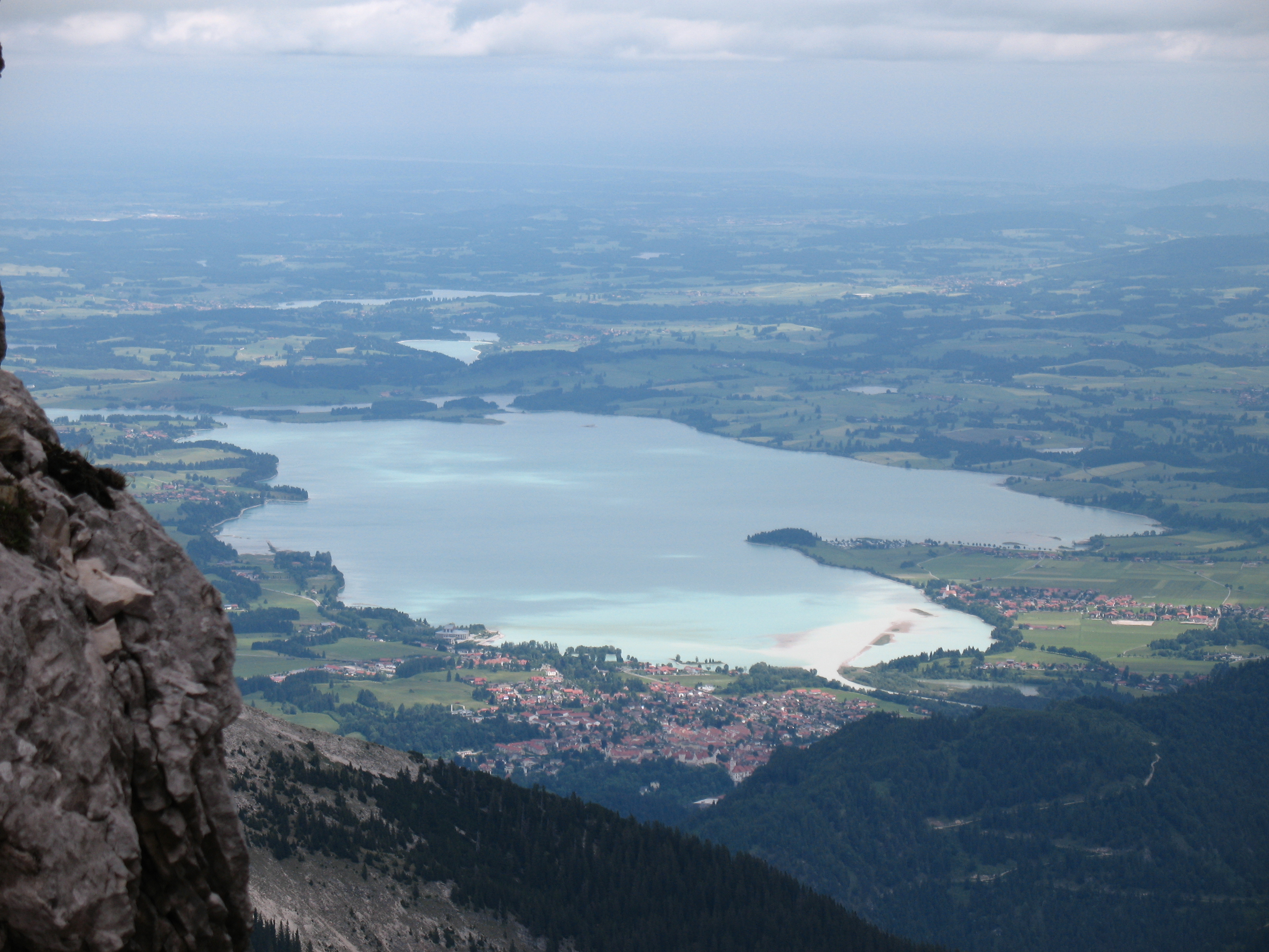 View from ascent to the Köllenspitze (2238 m) down to lake Forggensee (780 m) and the city Füssen (808 m).